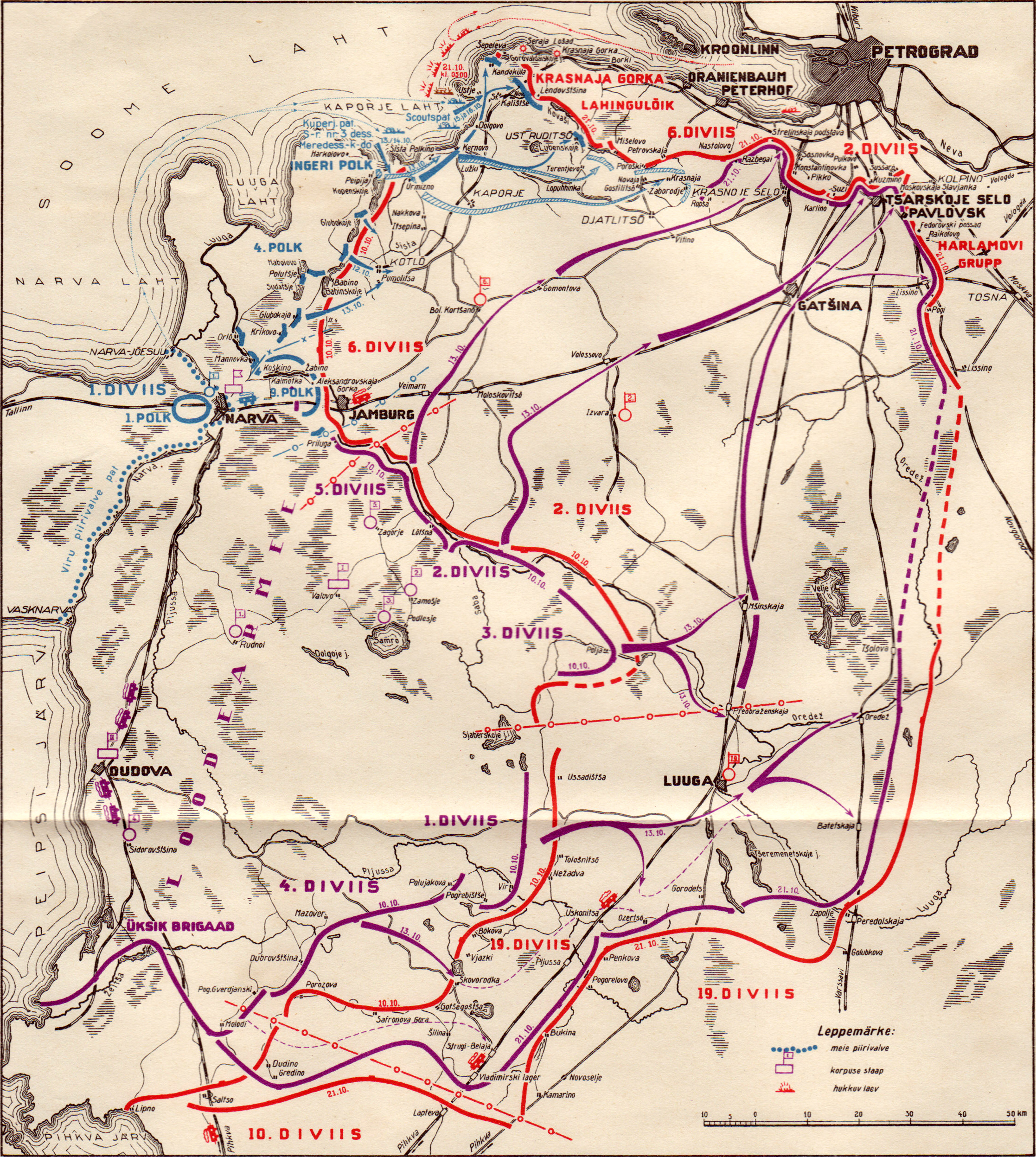 Northwestern Army's offensive against Petrograd in October 1919. Krasnaya Gorka operation.